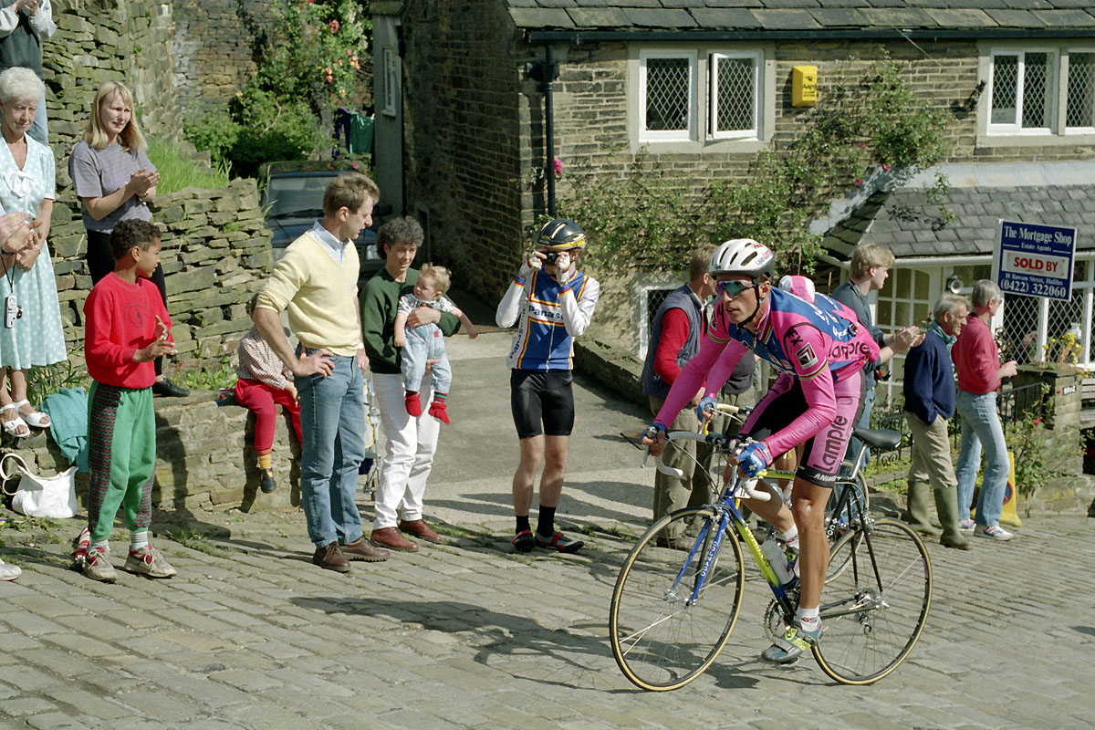 Even Lampre's former world champion must be wondering how many more hills there are ... in the Kellogg's Tour of Britain (near Halifax, West Yorkshire) Scanned 35mm negative